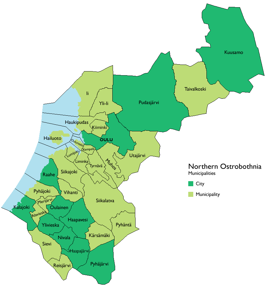 A map of the municipalities of Northern Ostrobothnia (Pohjois-Pohjanmaa).